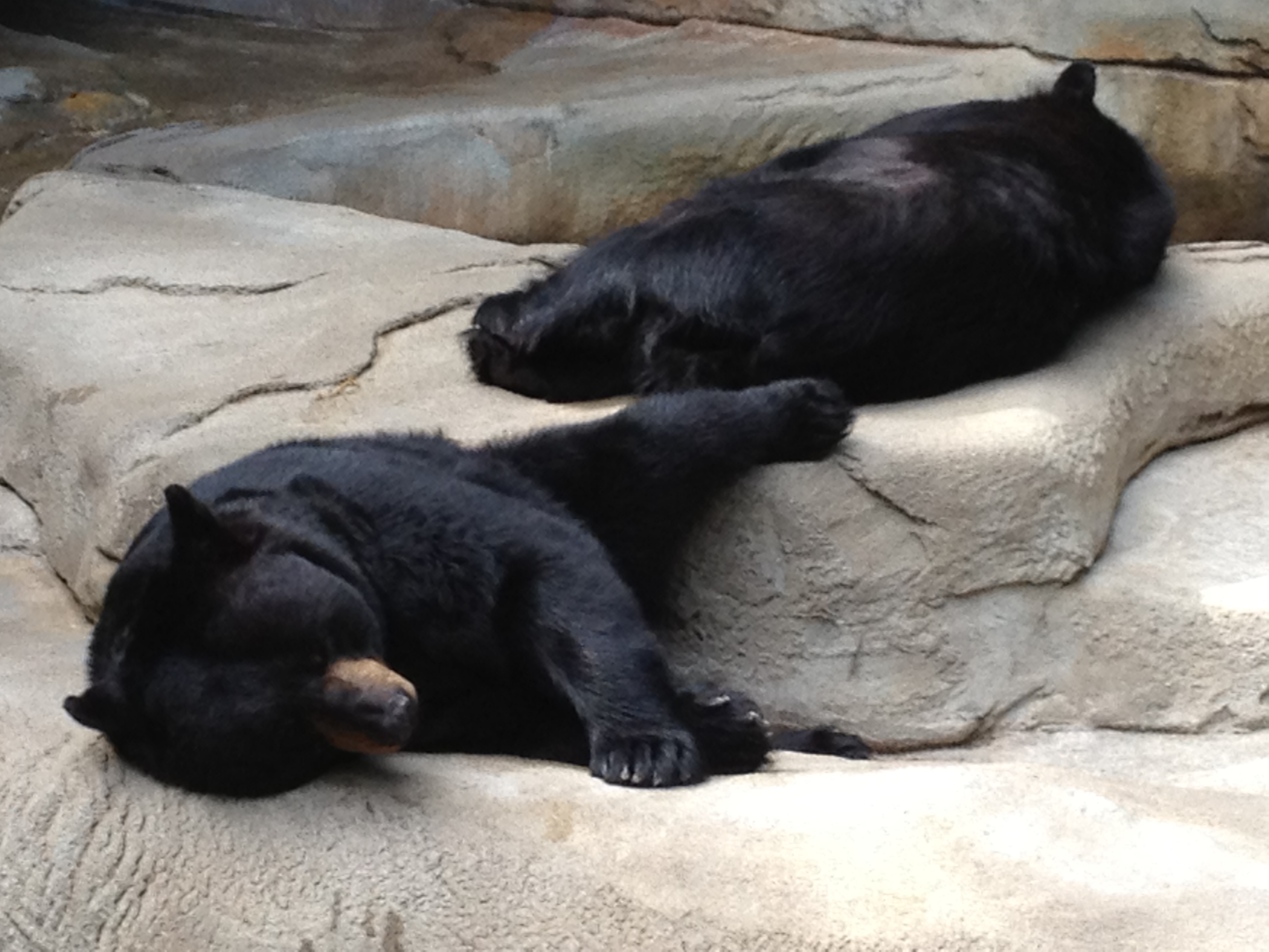 Two black bears (Ursus americanus) relaxing at the Cincinnati Zoo